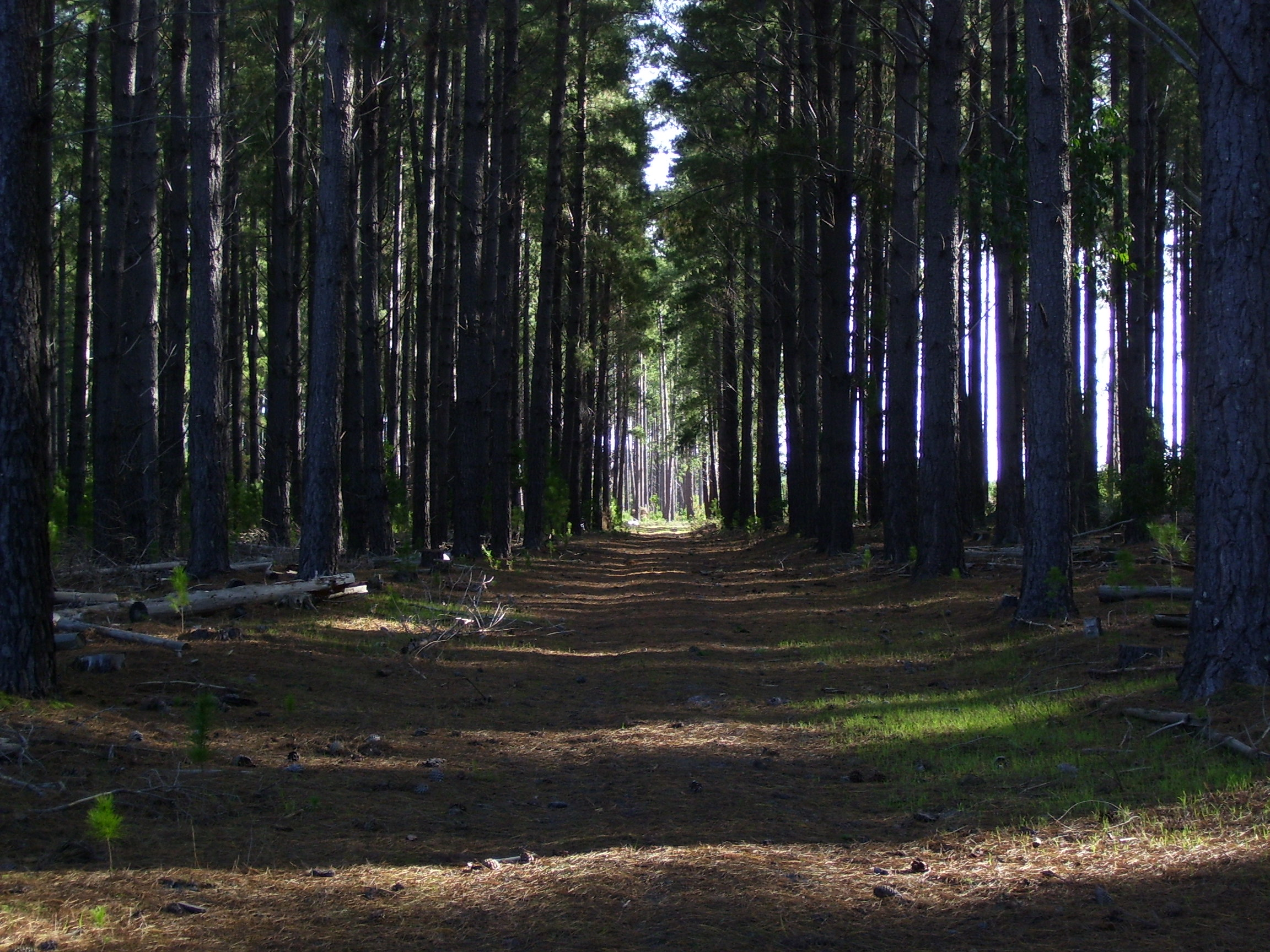 Winter sun through trees